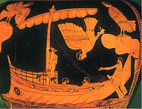 Very old Greek depiction featuring Odysseus with the Sirens. Including Parthenope, a siren and mythological founder of Naples. Attic red-figured stamnos, ca. 480-470 BC. From Vulci. Inv. GR 1843.11-3.31